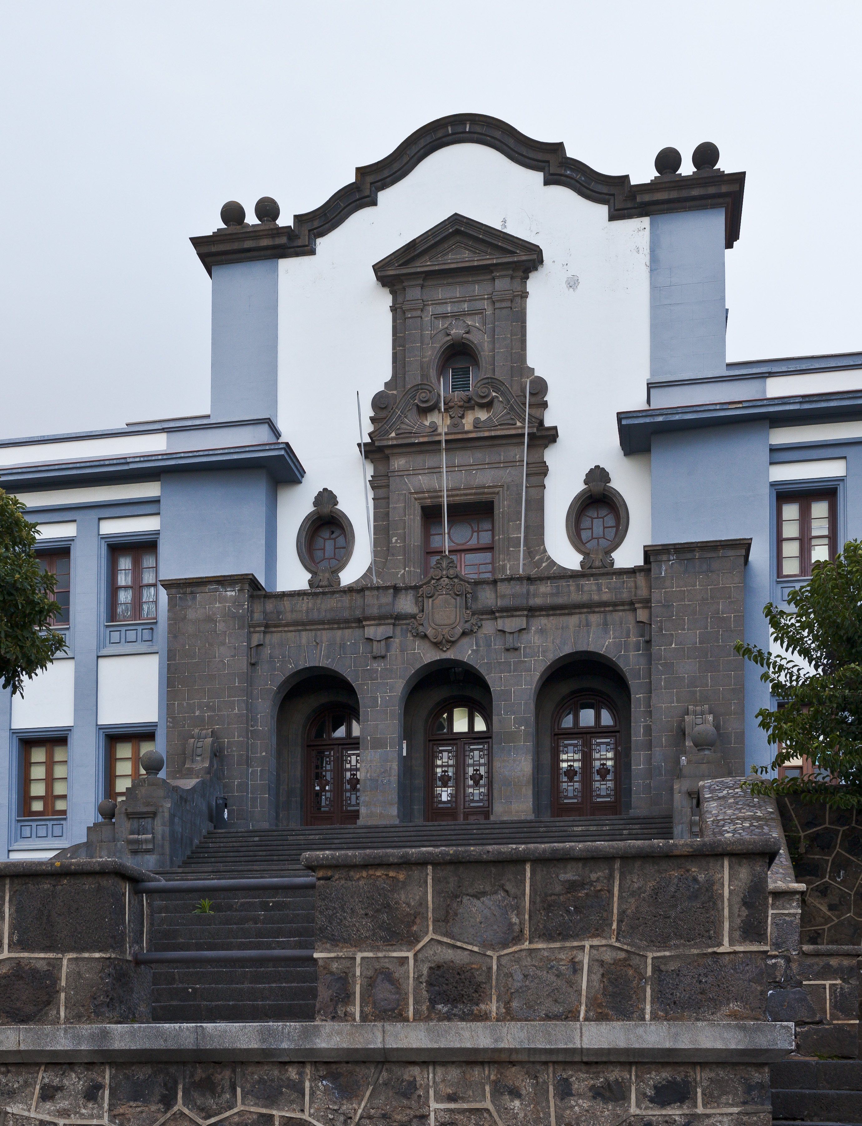 Pupils' services building, University of La Laguna, San Cristóbal de La Laguna, Tenerife, Spain